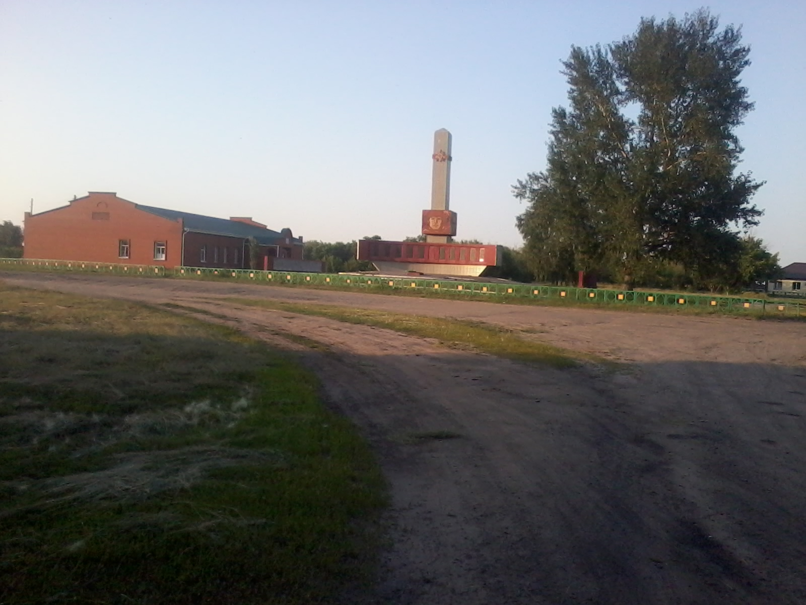 Шимолино